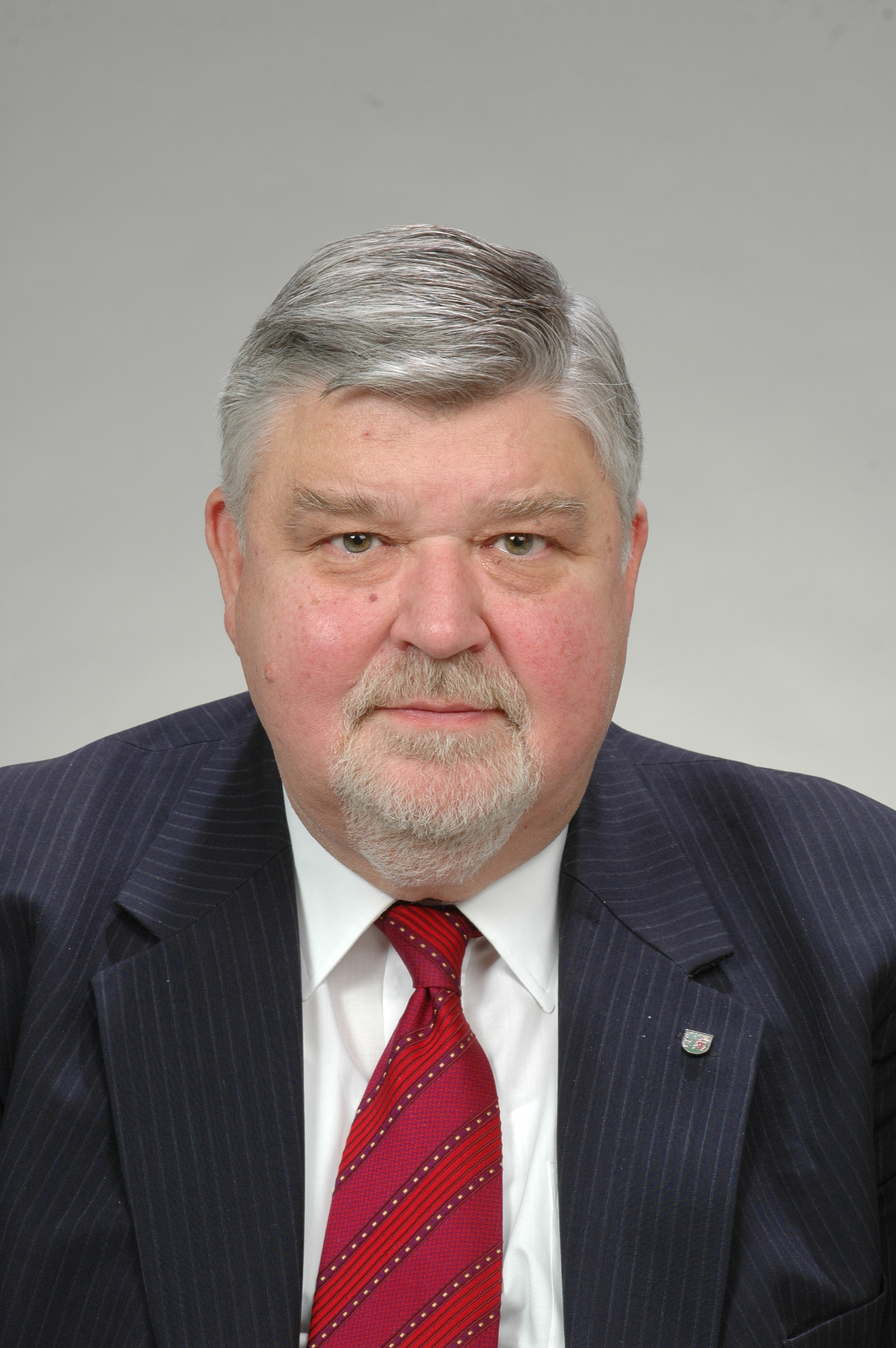 Deputy of the 9th Saeima Uldis-Ivars Grava